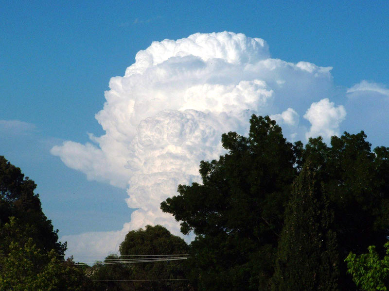 Cumulonimbus cloud, cumulonimbus calvus.Nube cumulonimbus, calvus cumulonimbus. Because this photograph concerns privacy since this was taken on a private property, only an approximate location is provided: Wagga Wagga, New South Wales, Australia